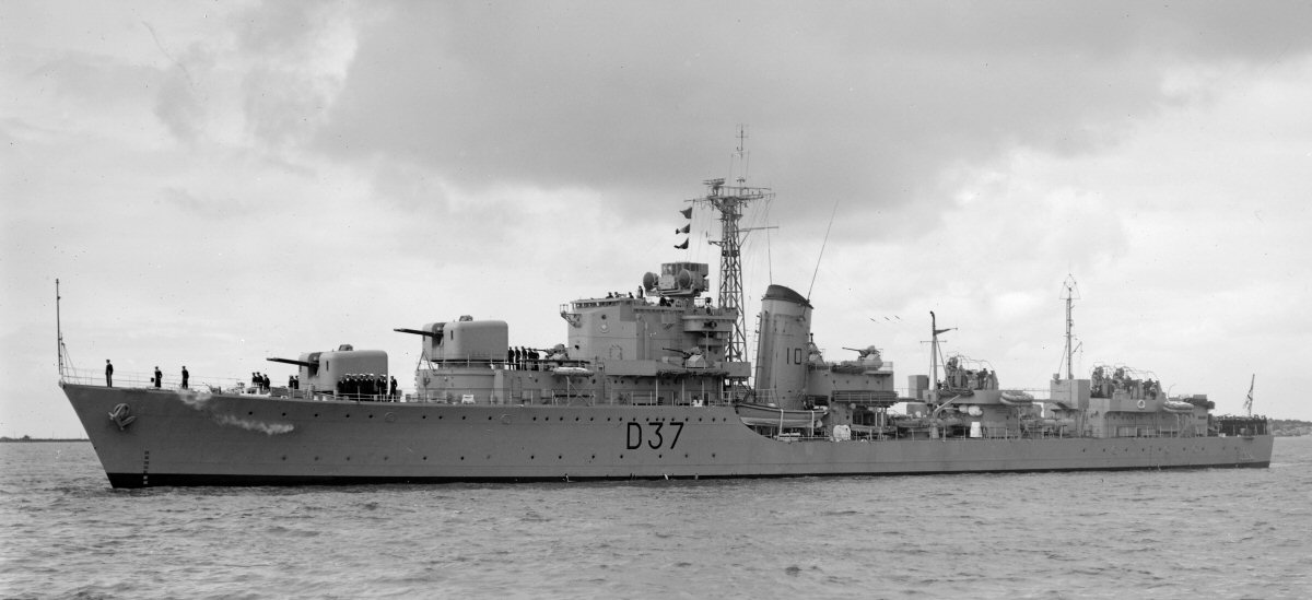 HMAS Tobruk (D37)